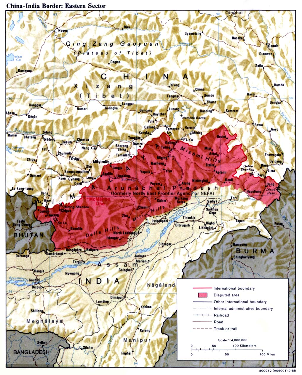 China India eastern border depicting disputed areas in this sector including NEFA.